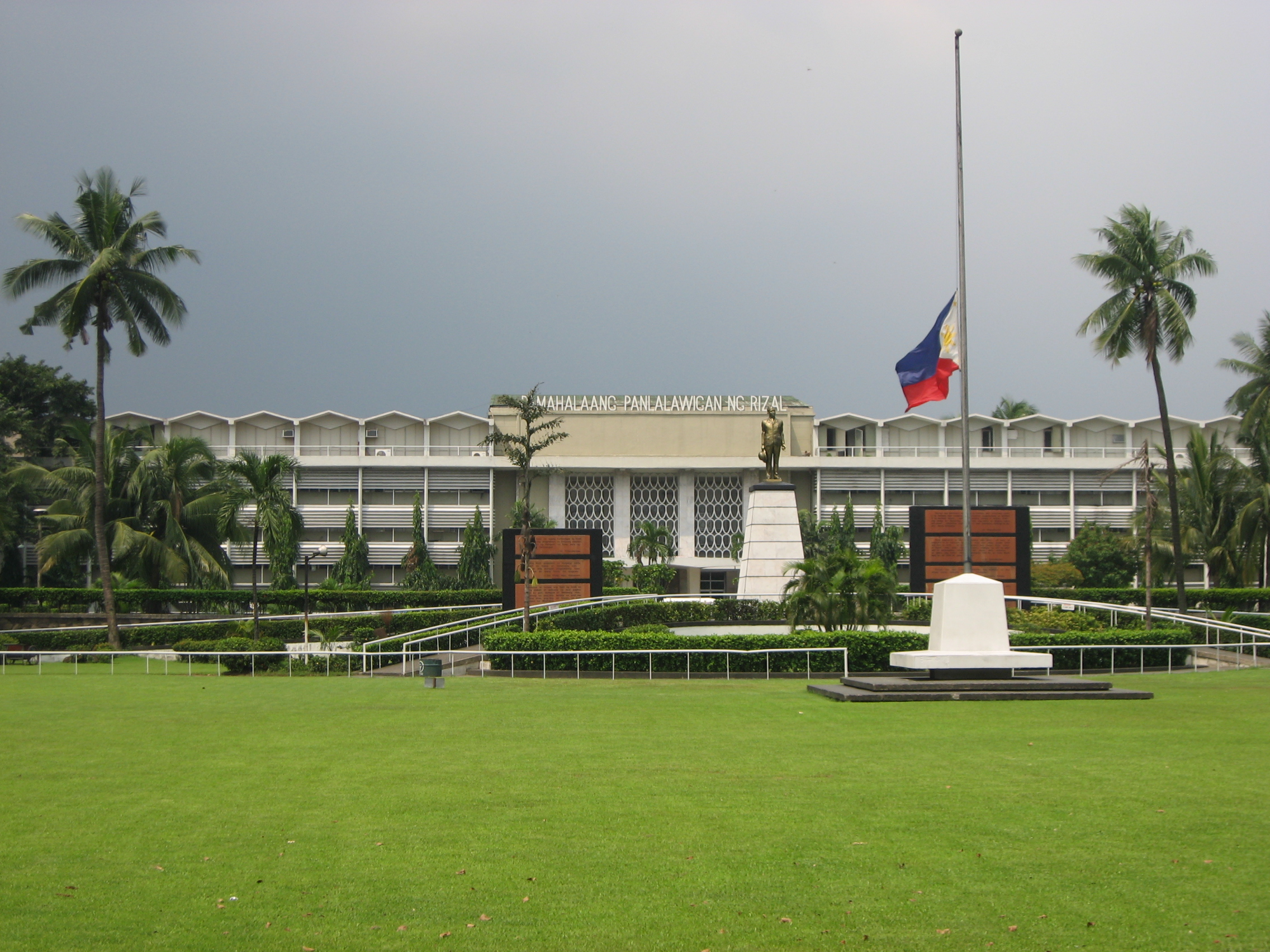 Then Rizal Provincial Capitol Building (Pamahalaang Panlalawigan ng Rizal) in Barangay Kapitolyo, Pasig City, Metro Manila. The Philippine flag is flown at half-mast.